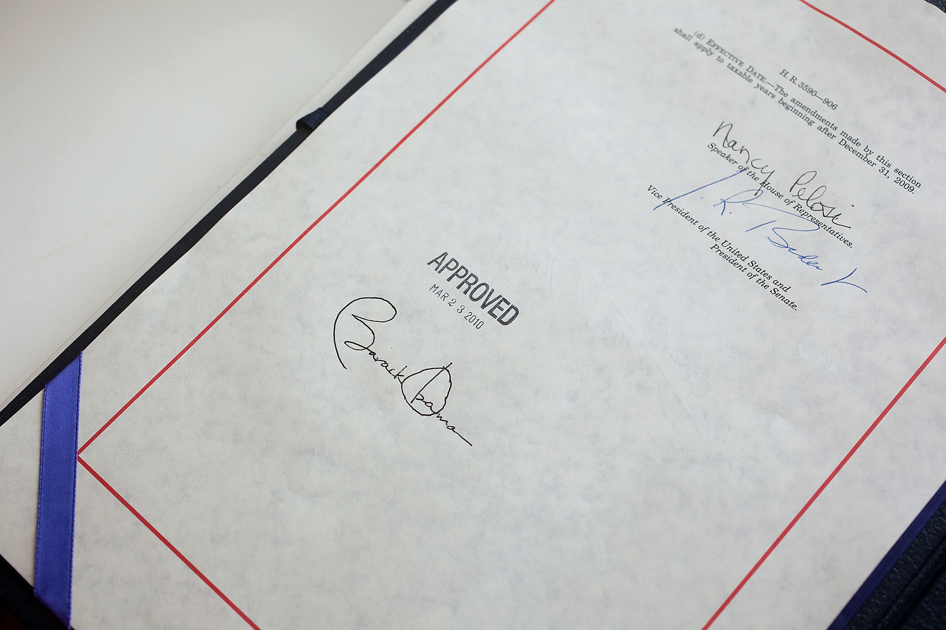 The signatures of President Barack Obama, Vice President Joe Biden, and Speaker of the House Nancy Pelosi on the health insurance reform bill signed in the East Room of the White House, March 23, 2010.